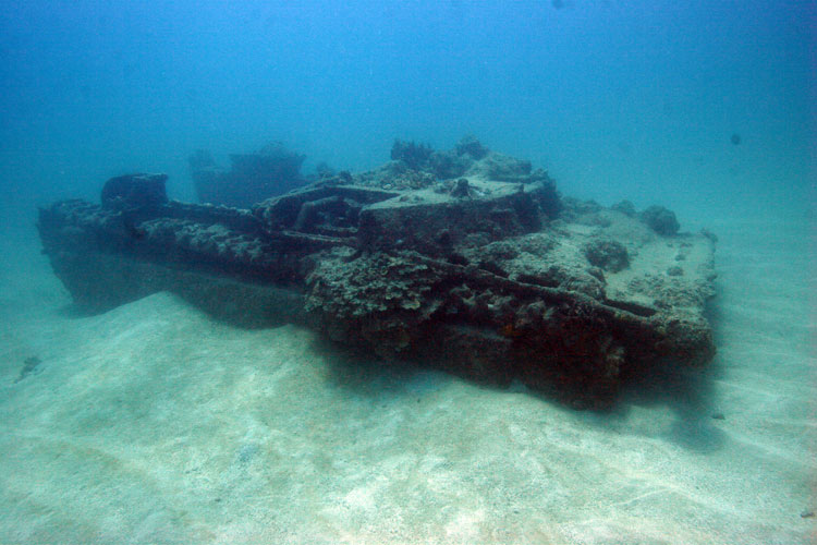 A sunken LVT-4 off the west coast of Guam.